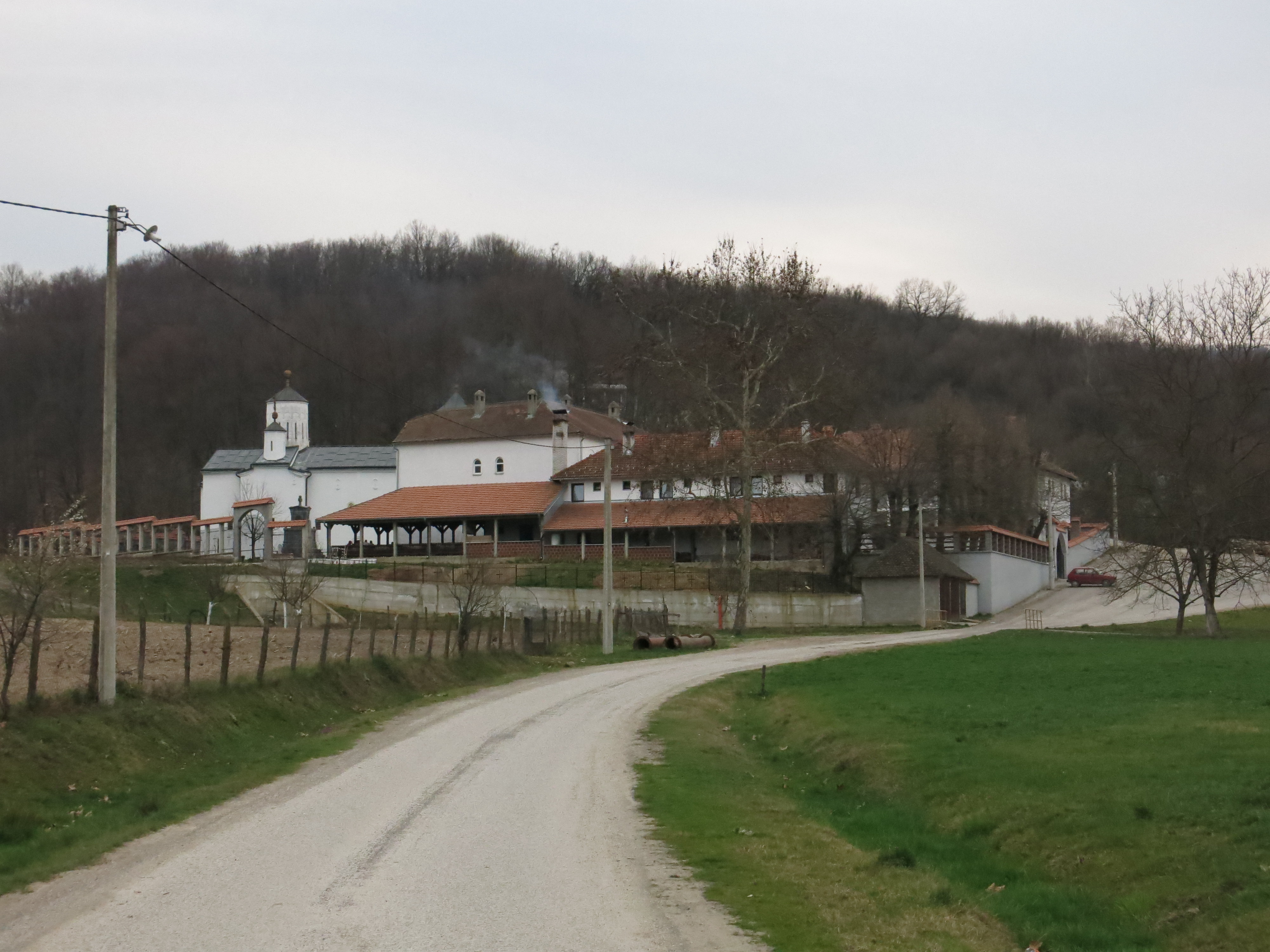 Čokešina, Čokešina Monastery